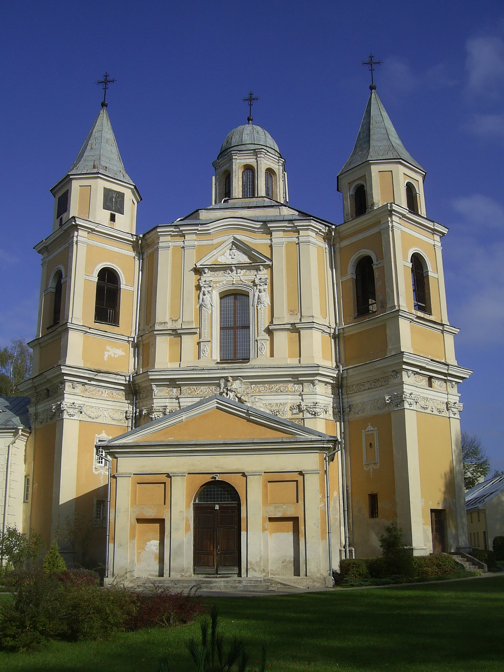 Round church with an octagonal dome built between 1694 and 1717 as part of Sapiega palace belonged to Trinitorian monastery.